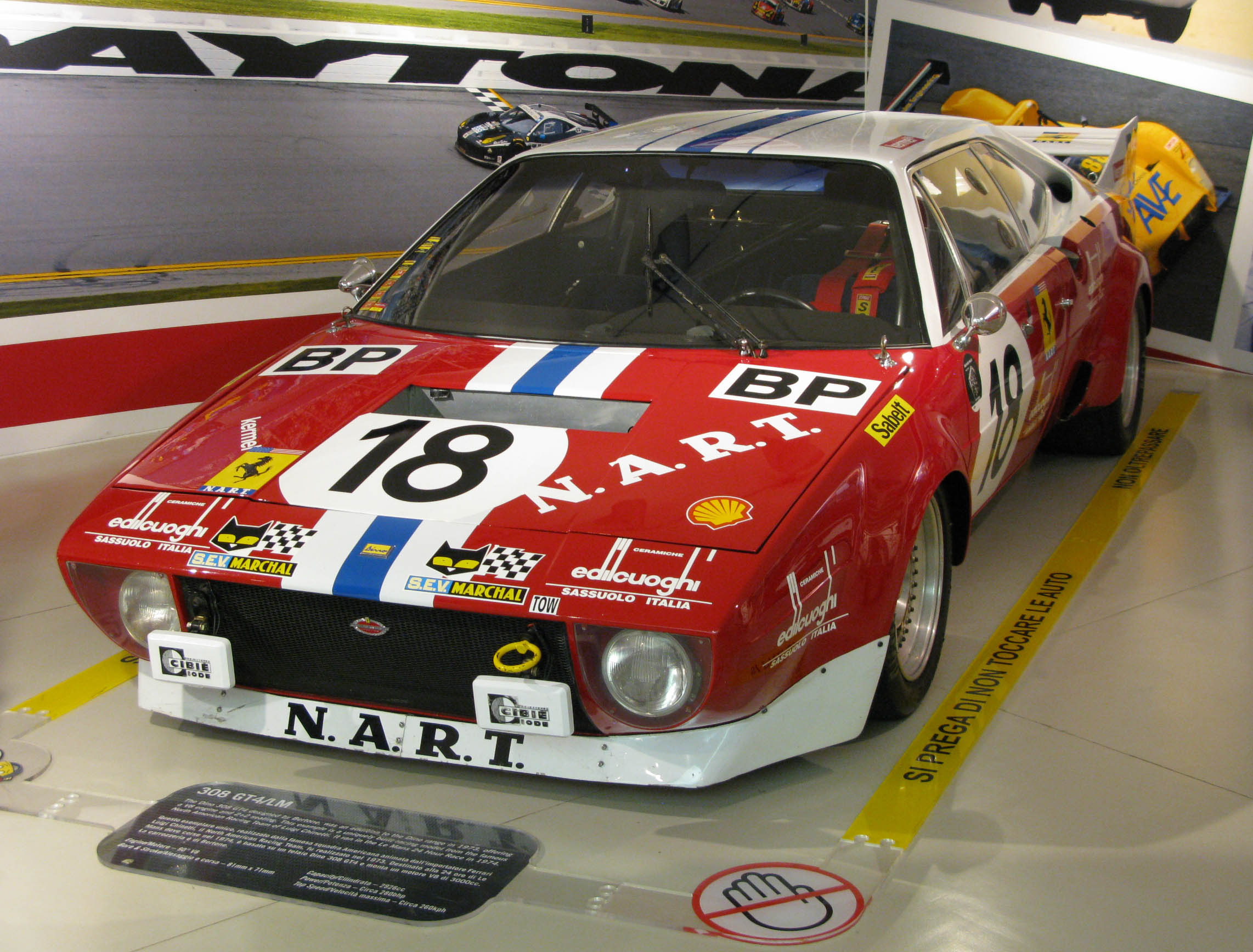 This Dino 308 GT4 was entered at the 1974 Le Mans race by North American Racing Team.